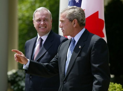 President George W. Bush and Canadian Prime Minister Paul Martin respond to questions from the press corps in the Rose Garden after a meeting at the White House.